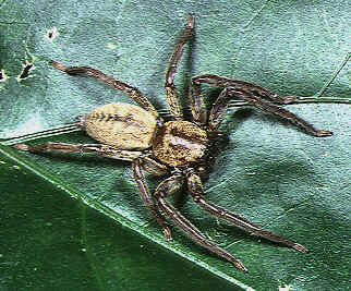 female Thelcticopis severa from Okinawa.